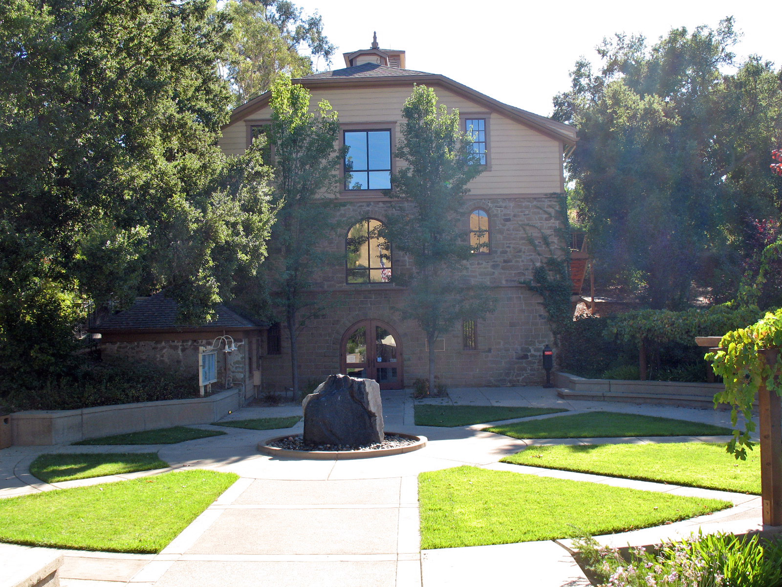 National Register of Historic Places listings in Contra Costa County, California. DeMartini Winery, 5919 Clayton Rd., Clayton, California, USA. Photographed 2008-09-07 from the parking area to the east of the building.